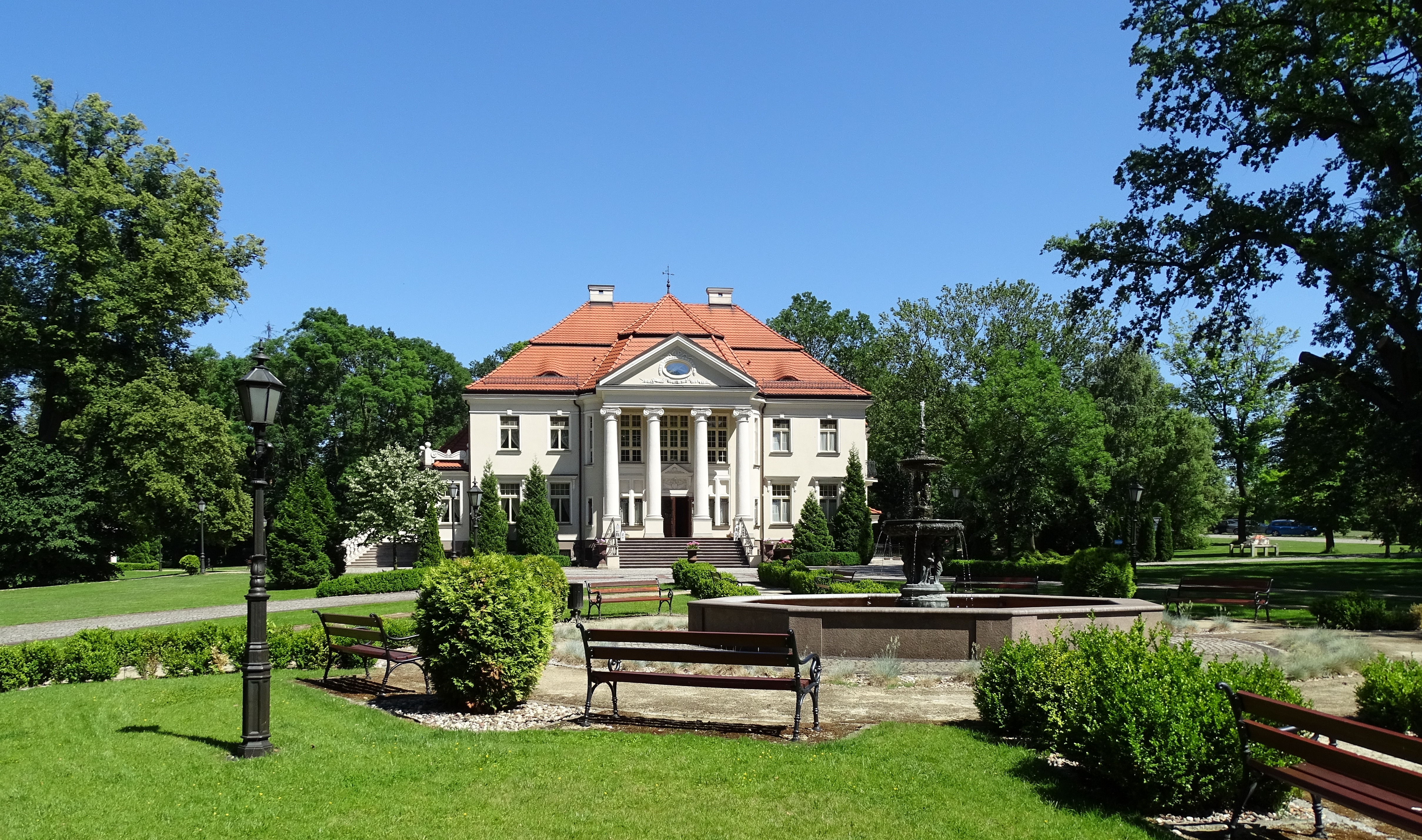 Tłokinia Kościelna, Gmina Opatówek, within Kalisz County, Greater Poland Voivodeship, Poland. The manor house, built in the 1915-1916.